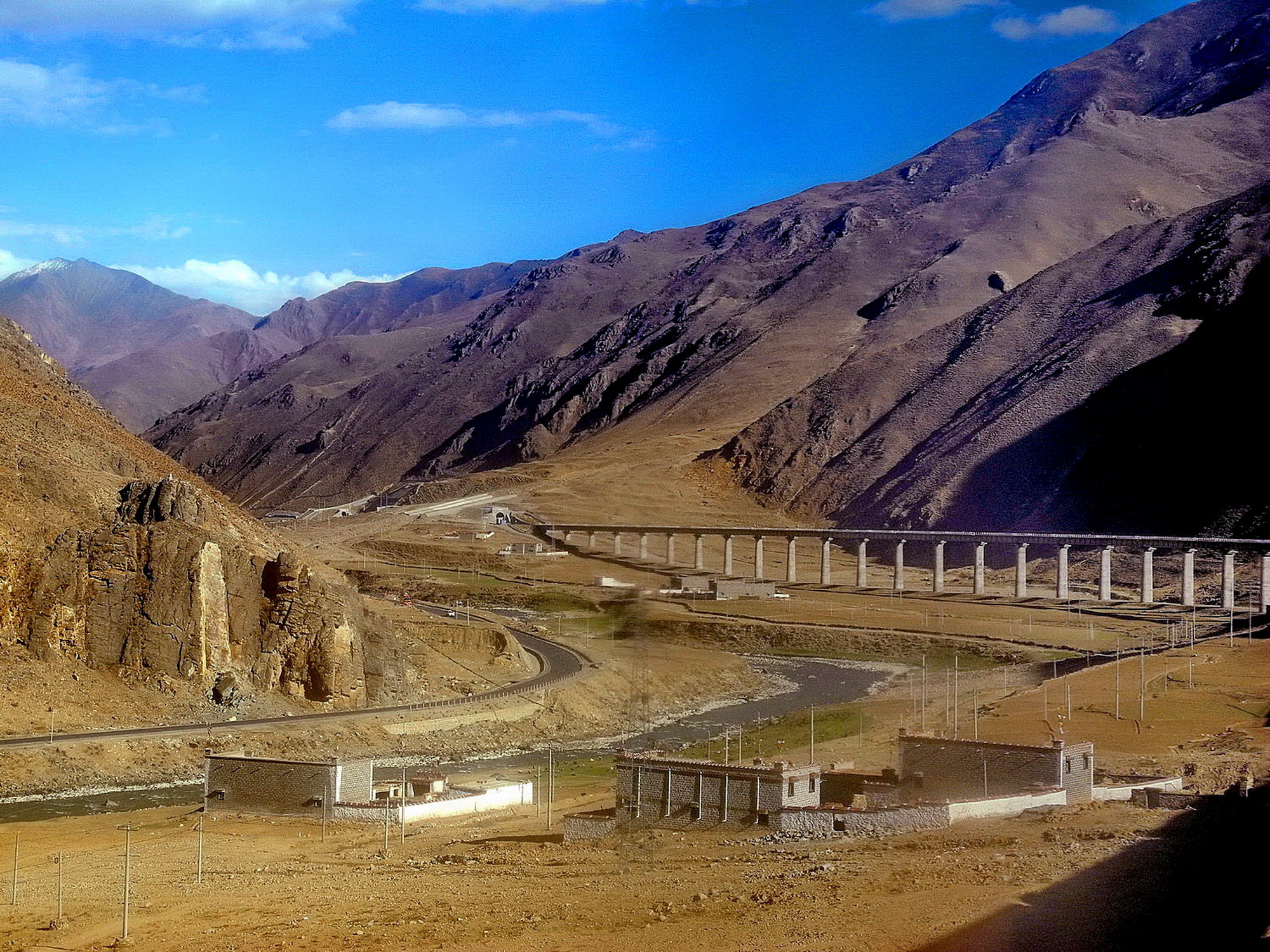 Arrival in Lhasa, Tibet